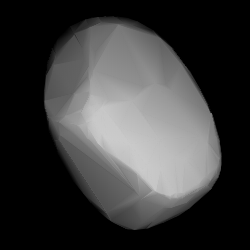 3D convex shape model of 2829 Bobhope, computed using light curve inversion techniques. J. Hanuš, J. Ďurech, M. Brož, B. D. Warner (June 2011). "A study of asteroid pole-latitude distribution based on an extended set of shape models derived by the lightcurve inversion method". Astronomy and Astrophysics 530: A134. ISSN 0004-6361. arXiv